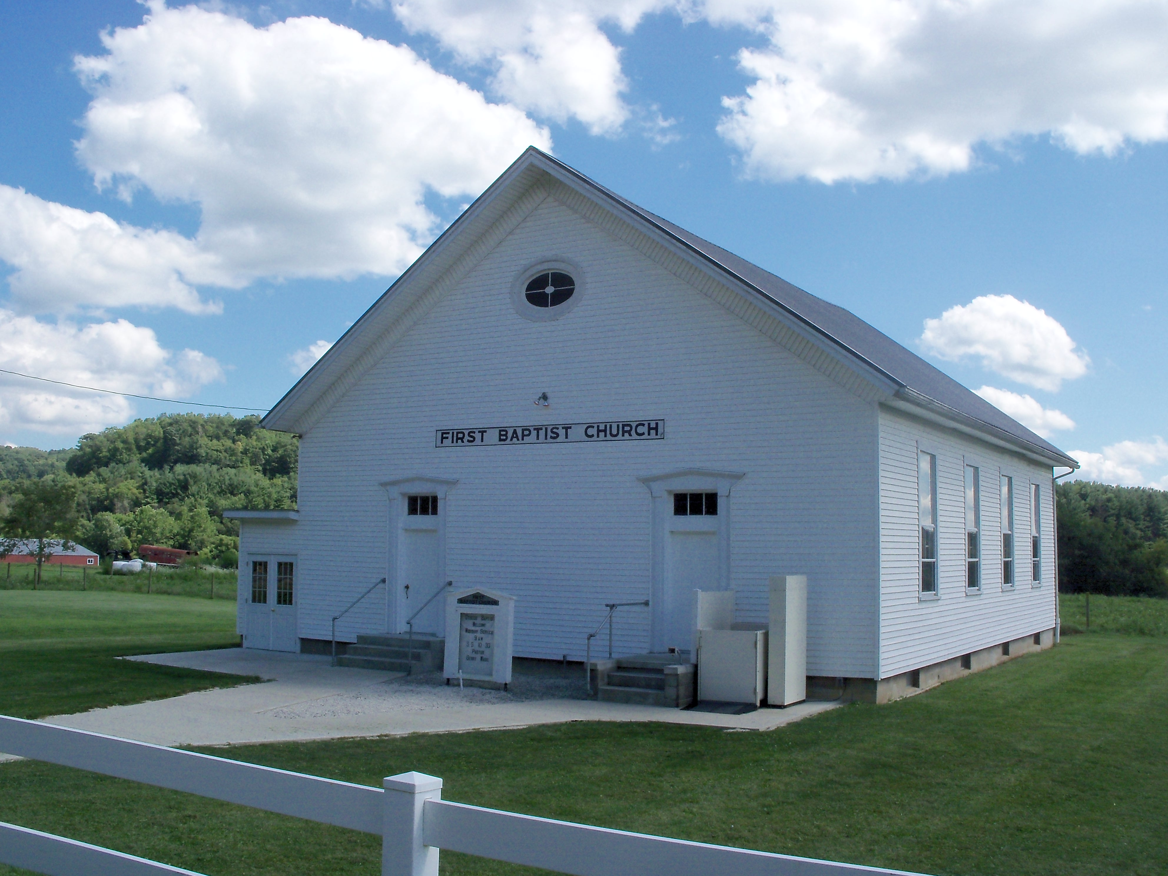 Baptist Church in crossroads called Otsego in Muskingum County, Ohio